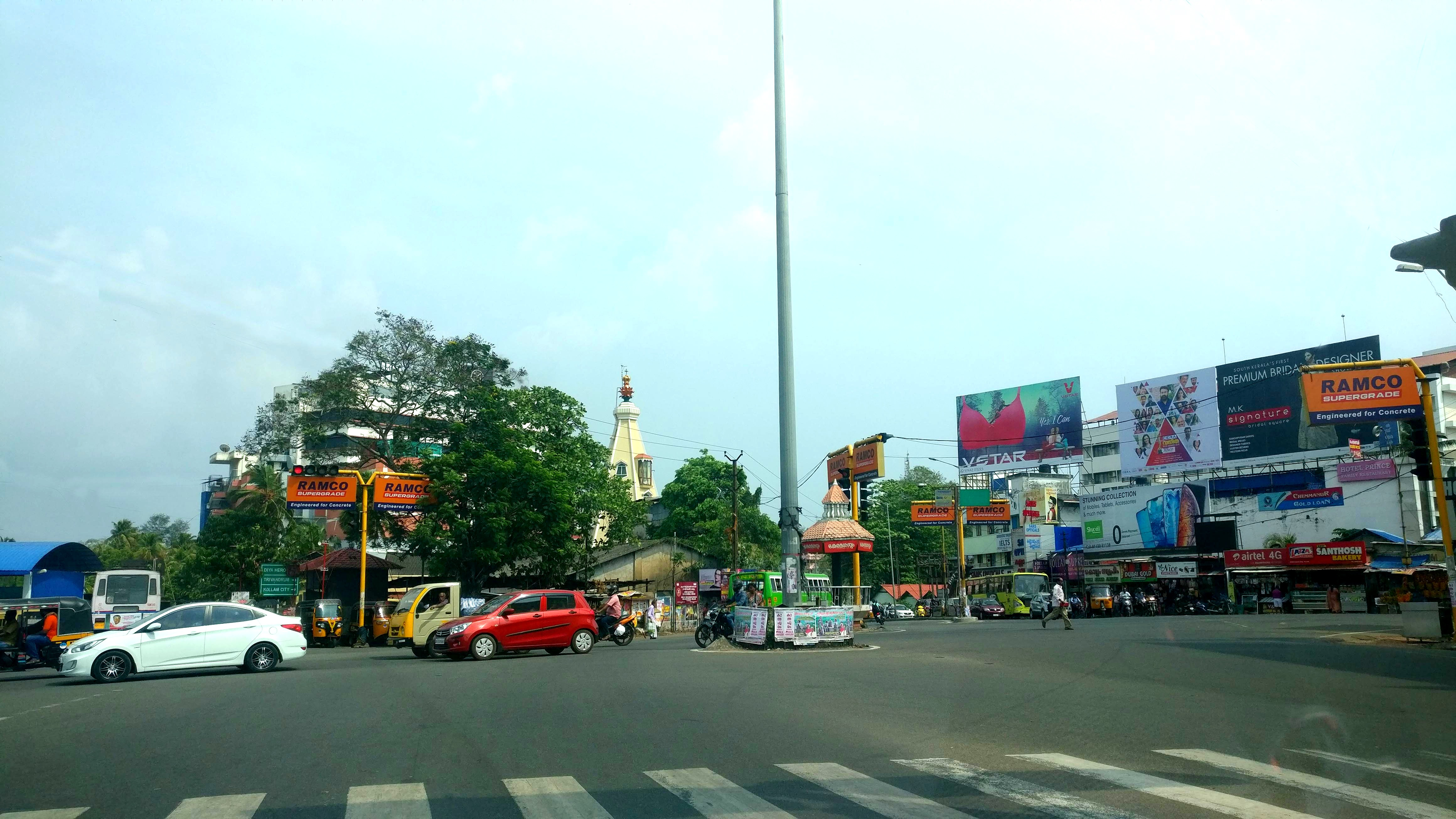 Cutchery or Taluk Cutchery is a neighbourhood of the city of Kollam.